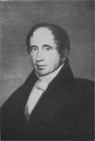 doctor Georg Adolf Dietrich von Rauch (ru: Egor Ivanovich Rauch).